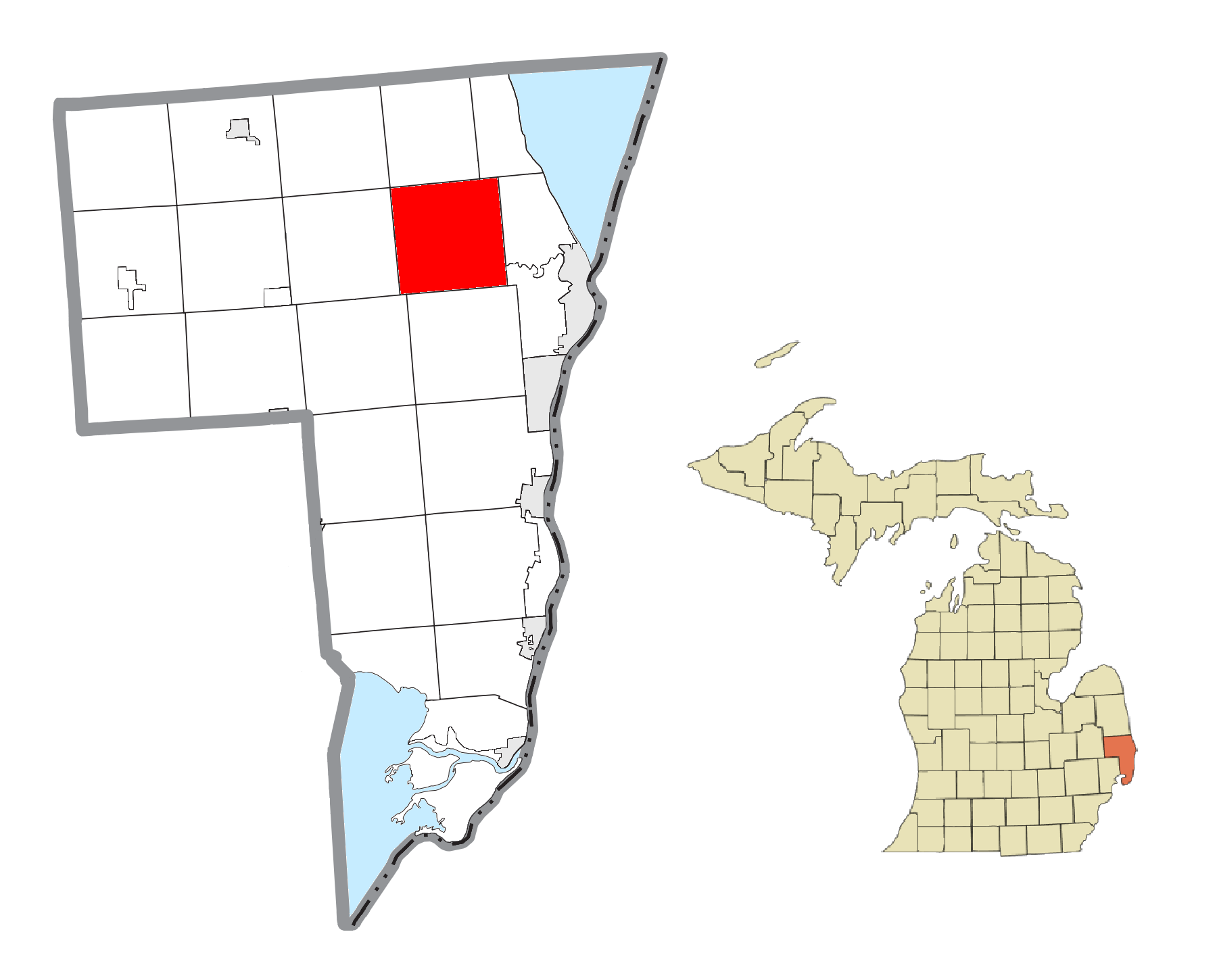 Clyde Township (St. Clair), MI